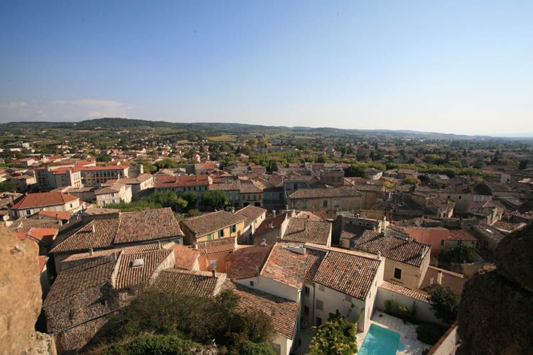 roofs looking at south of the village of Valréas, Vaucluse, France